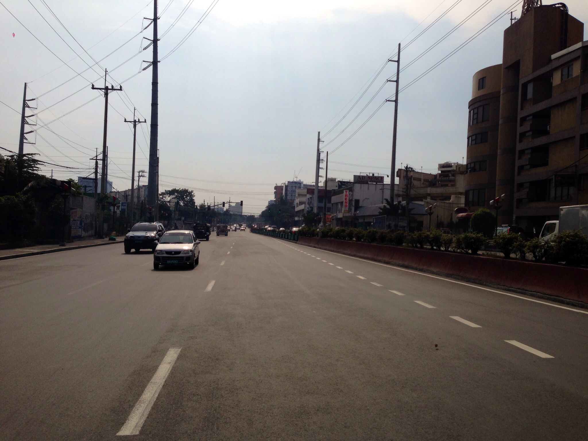 Quirino Avenue near Paco railway station, Manila